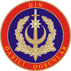 Crest of the Internal Troops of Azerbaijan